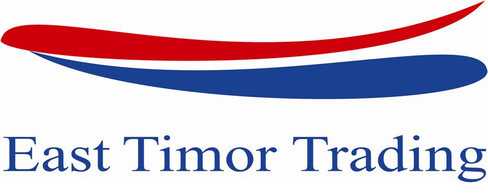 ETT group Logo